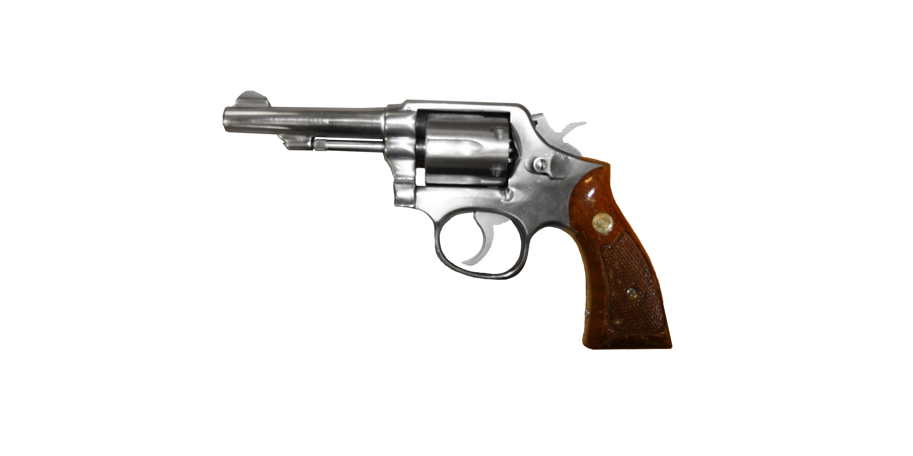 An image of a Smith and Wesson Model 64 Revolver